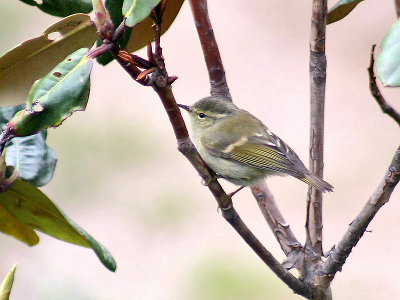 Hume's Warbler Phylloscopus humei in Kullu District of Himachal Pradesh, India.